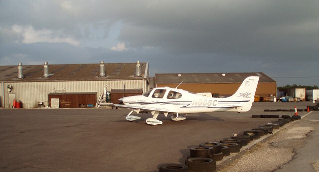 Small plane at Turweston Airfield